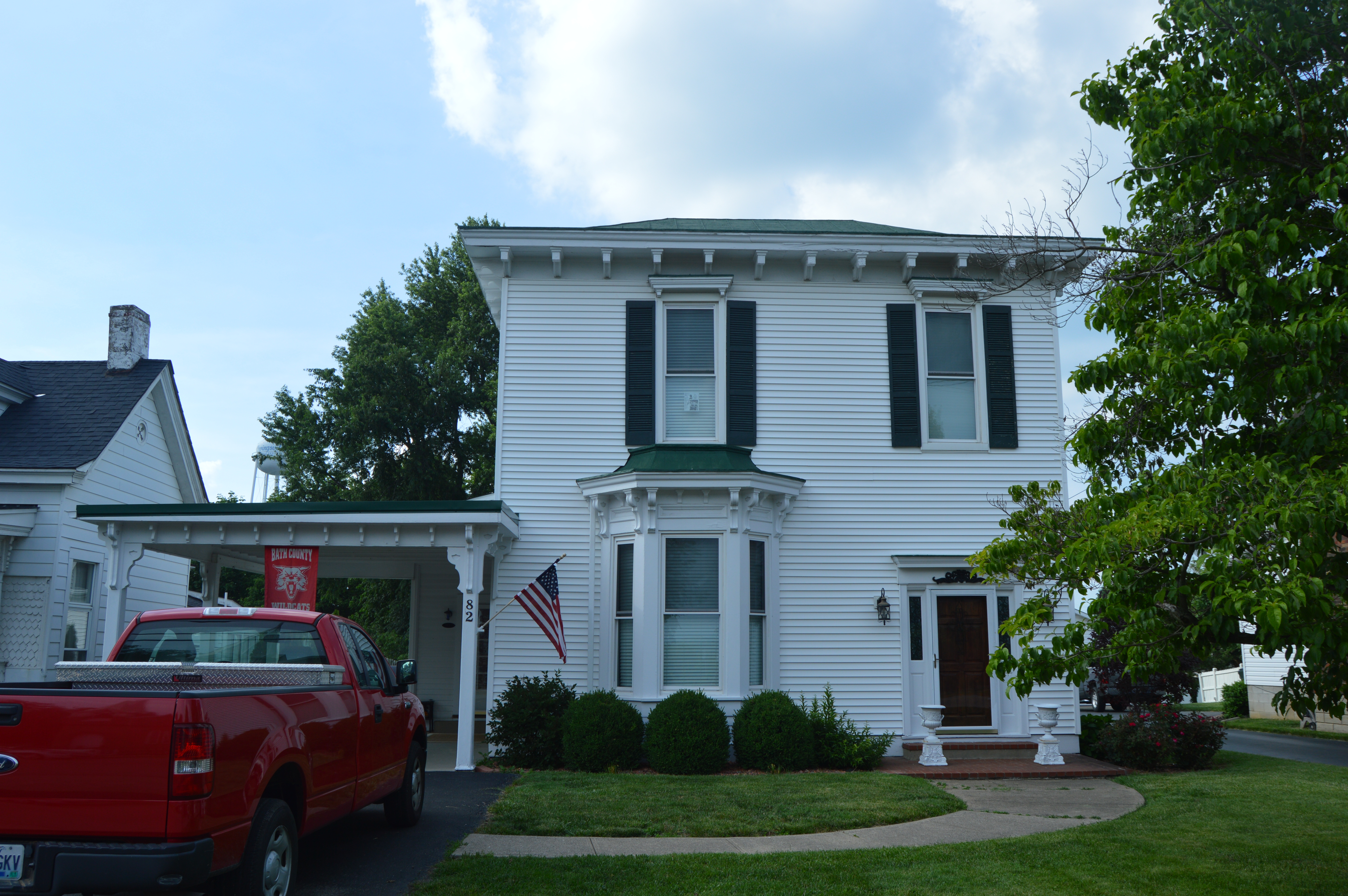 Front of the birthplace of John Bell Hood, located at 82 E. Main Street (U.S. Route 60) in Owingsville, Kentucky, United States.